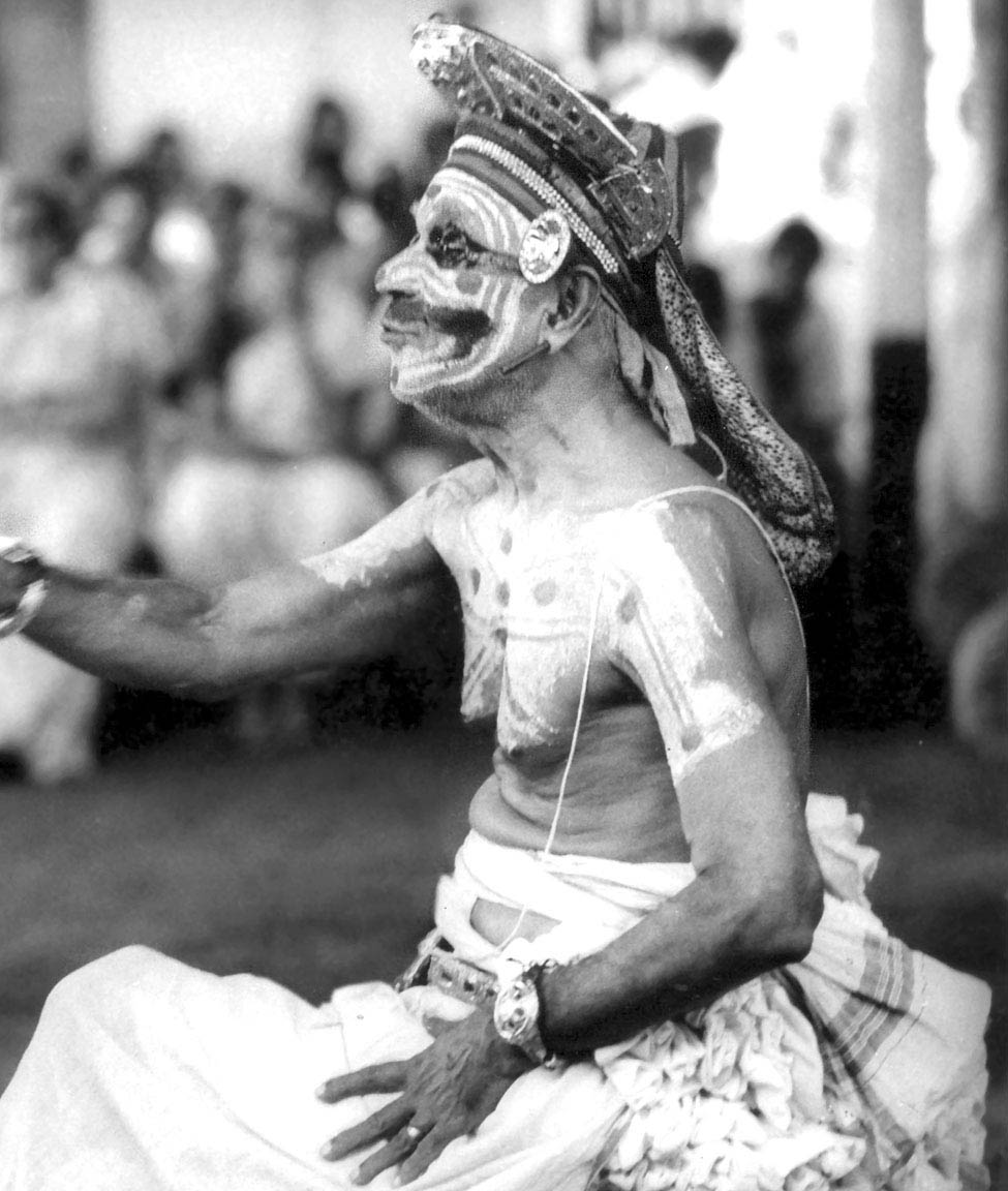 Natyacharya Vidushakaratnam Padmasree Mani Madhava Chakyar performing Chakyarkoothu. It was he who took Chakyar koothu and Koodiyattam outside Koothambalams.